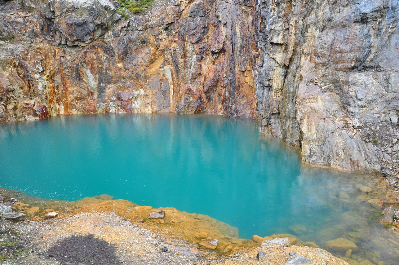 Abandoned and water-filled shaft of a Baryte mine in the Scottish Highlands at Ben Eagach, 4 miles north of Aberfeldy, Perthshire. [On Ordnance Survey maps Ben Eagach is referred to as Beinn Eagagach]